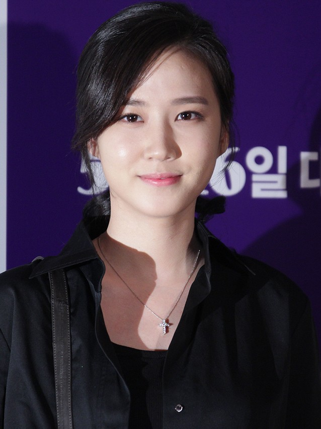 Park Eun-bin at the VIP premiere for "Mina's Stationery Store", 8 May 2013